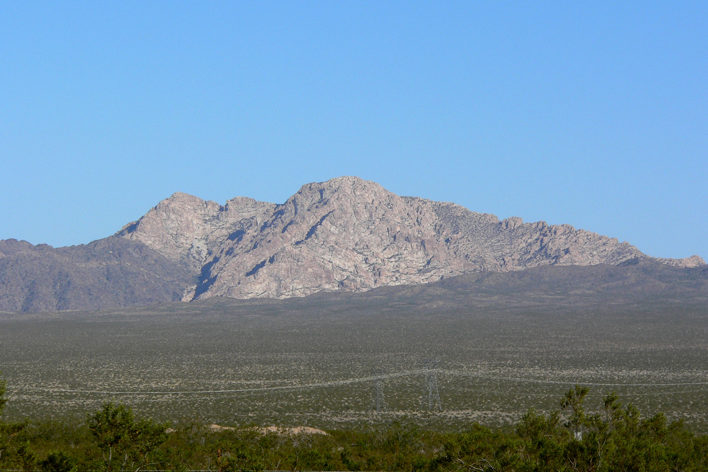 Spirit Mountain from the west, Newberry Mountains, southern Nevada